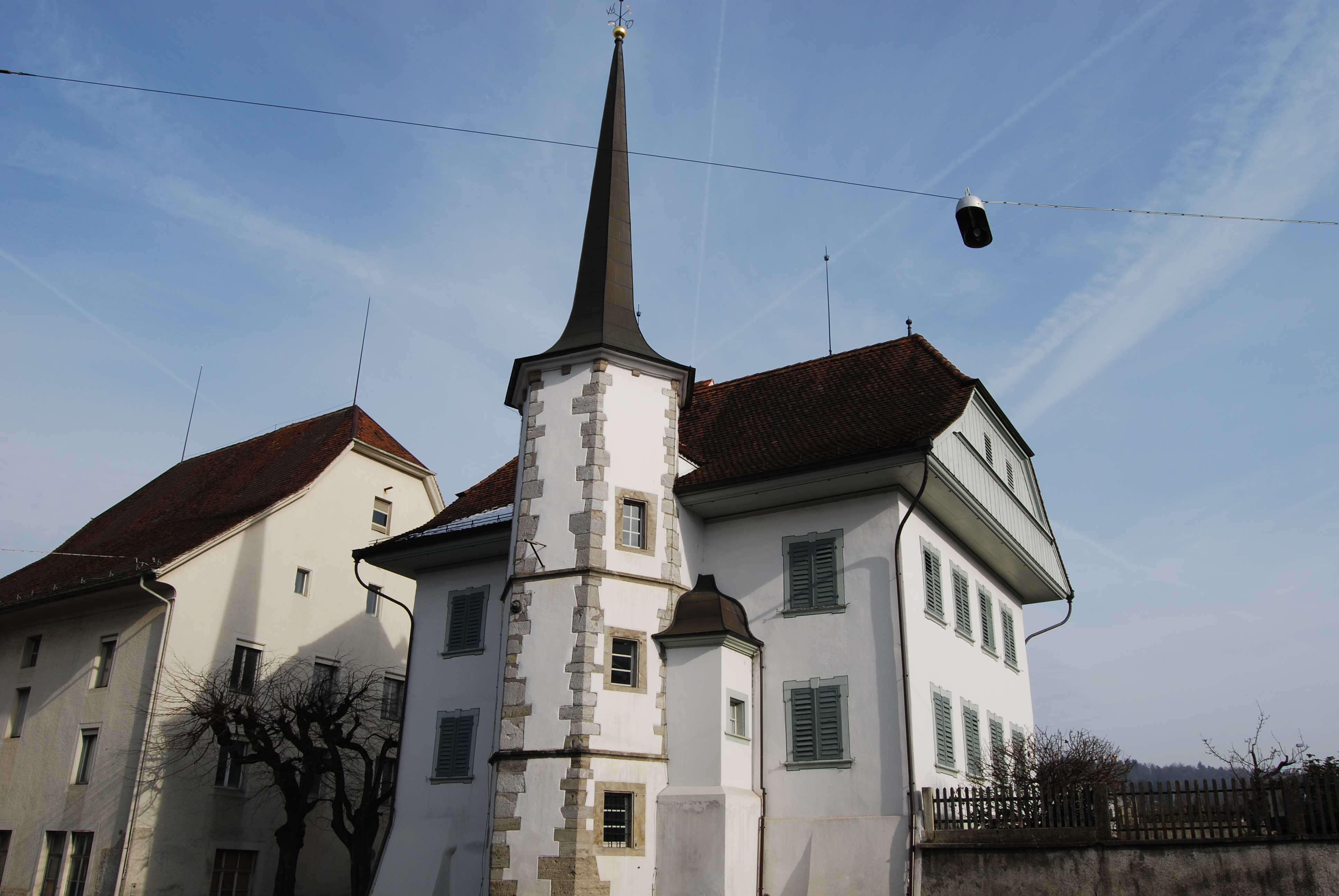 Museum Schneggli at Reinach, canton of Aargau, SwitzerlandEsperanto: Muzeo Schneggli en Reinach, Kantono Argovio, Svislando